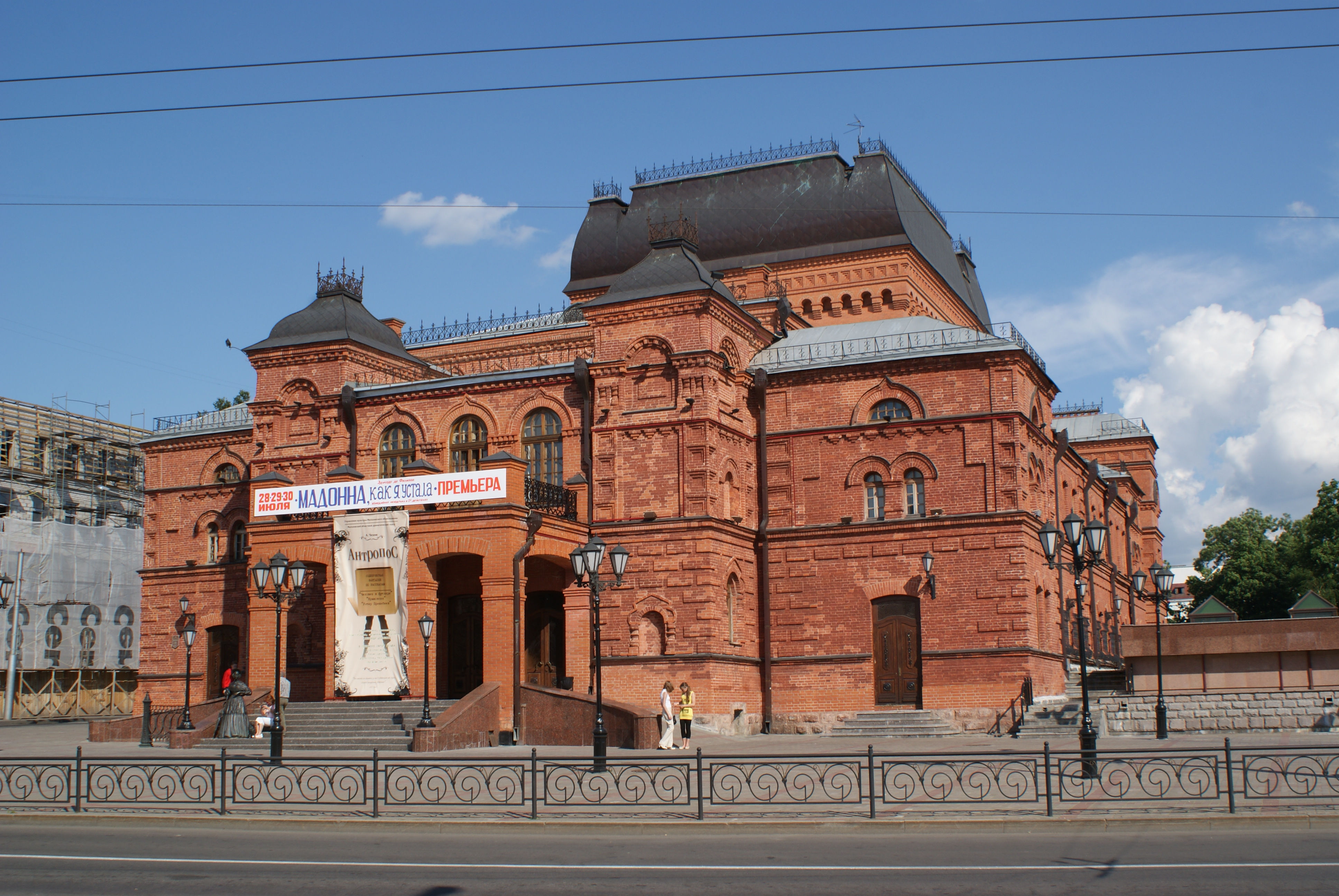 Regional Drama Theater, Mahilyow